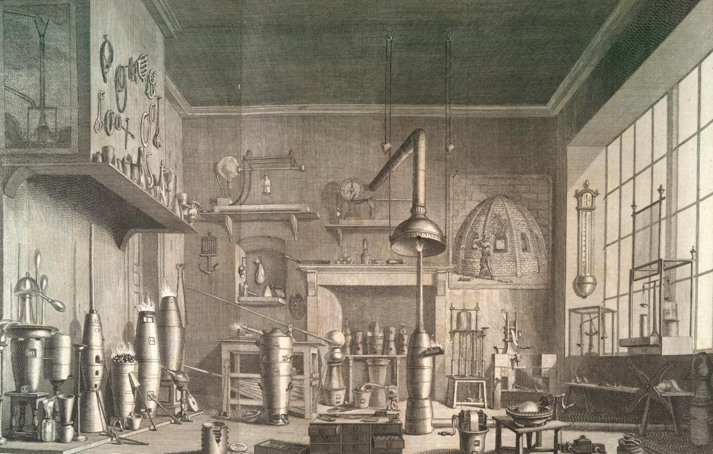 Engraving from Lewis's book showing an 18th-century chemical laboratory.